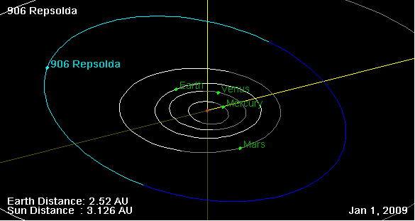 906 Repsolda orbit, and his position on 01 Jan 2009 (NASA Orbit Viewer applet)